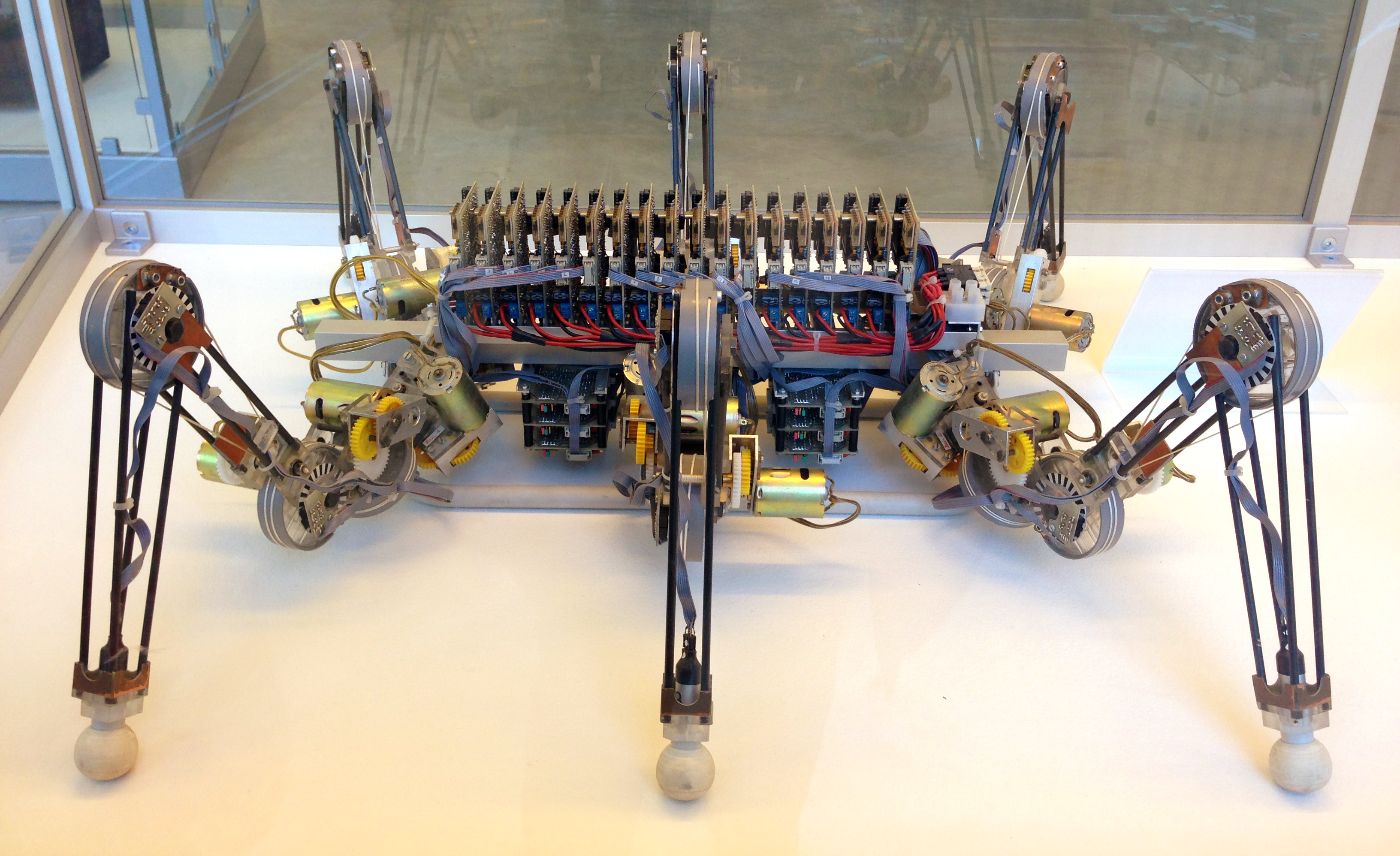 Six-legged walking robot LAURON built in 1995 by FZI Research Center for Information Technology in Karlsruhe, Germany; photo taken at Deutsches Museum, Munich